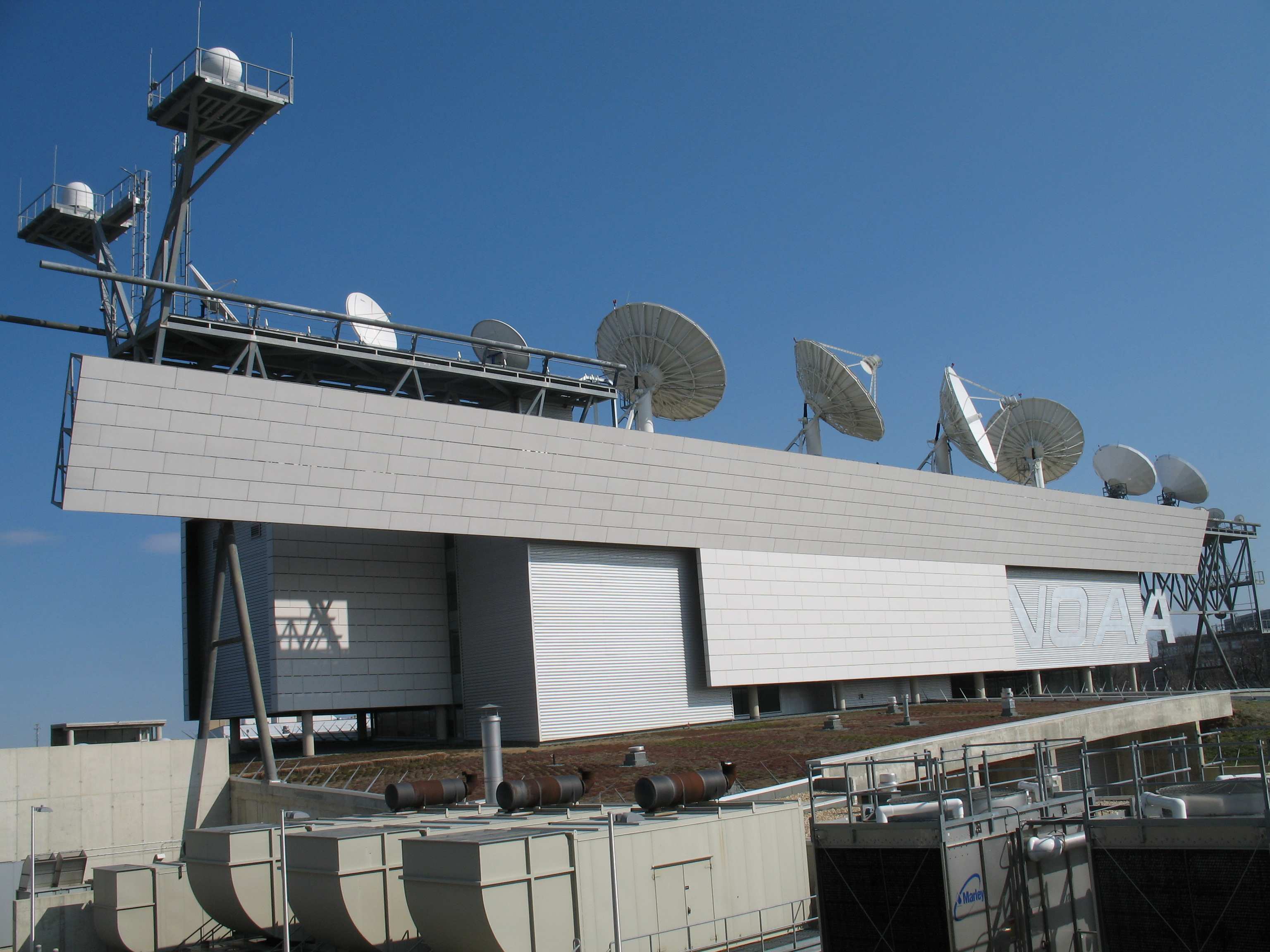 A larger view of the NSOP facility in Suitland, Maryland